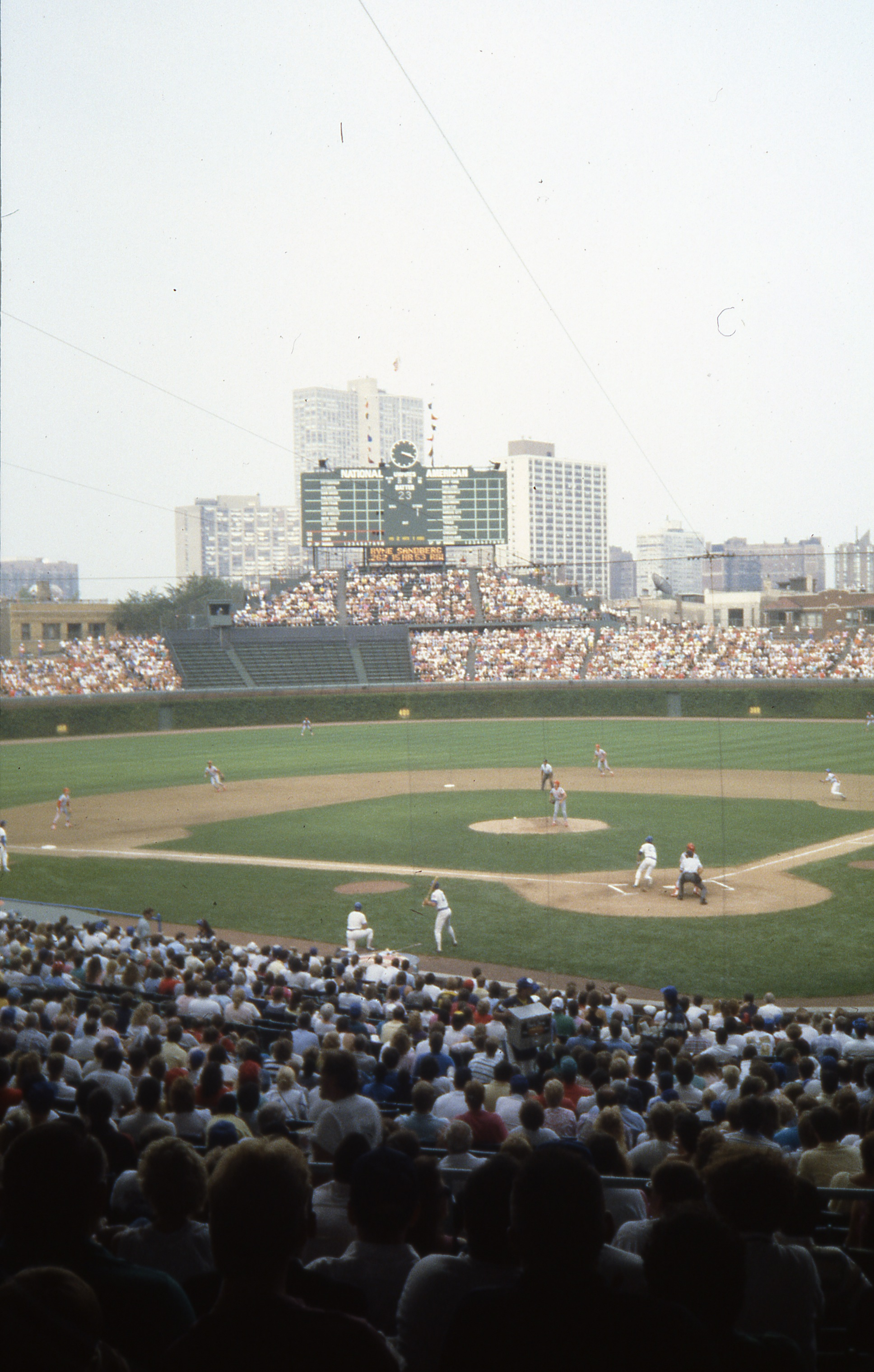 Ryne Sandberg bats at Wrigley Field September 2, 1988 Eric the Red also homered in the first, and it was Doug Dascenzo's first major league game (he had three hits).